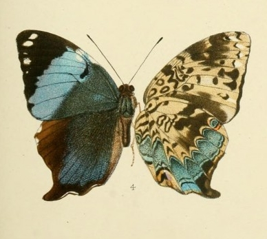 The butterfly Nymphalis franck: detail of Rhopalocera Malayana: A description of the butterflies of the Malay Peninsula illustration.